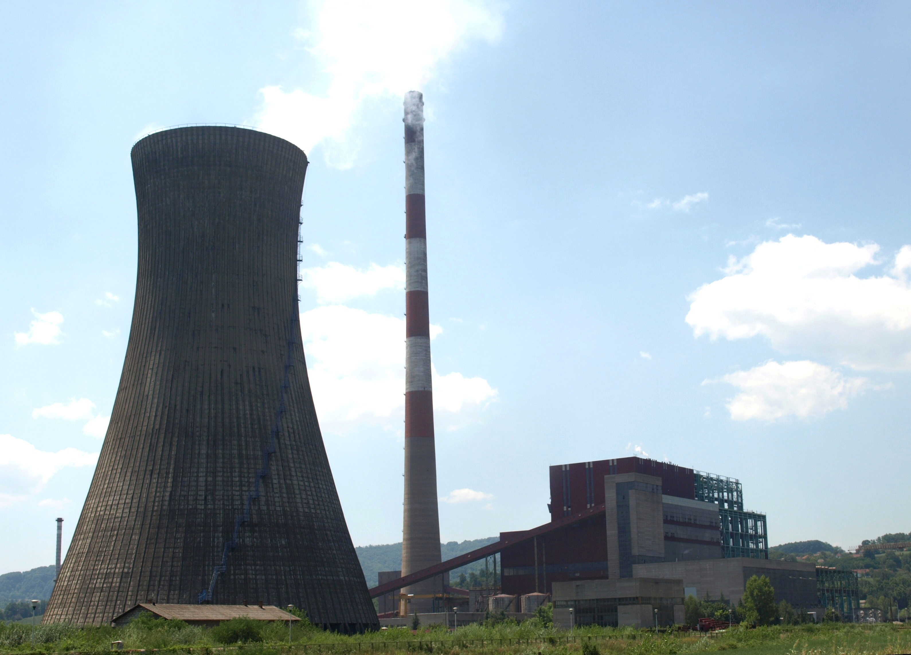 Ugljevik Power Plant in Bosnia and Herzegovina